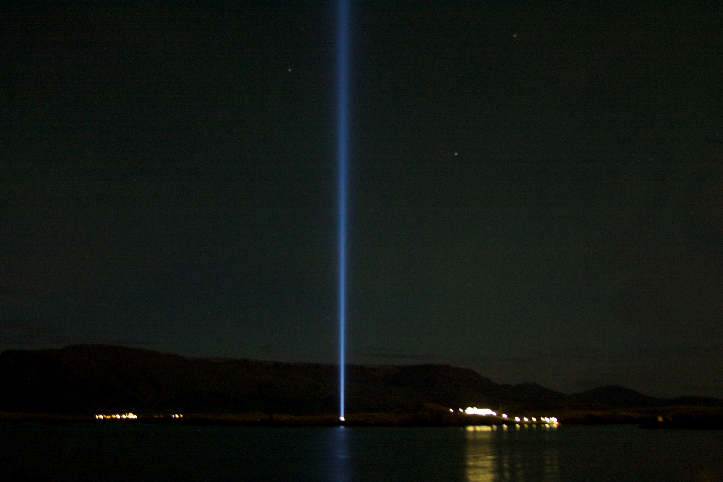 The light of the Peace Tower, dedicated to John Lennon, stretches to the sky, reminding us to keep Imagining Peace until it becomes our reality